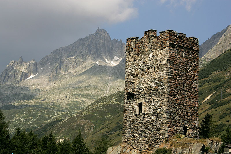 Wohnturm in Hospental